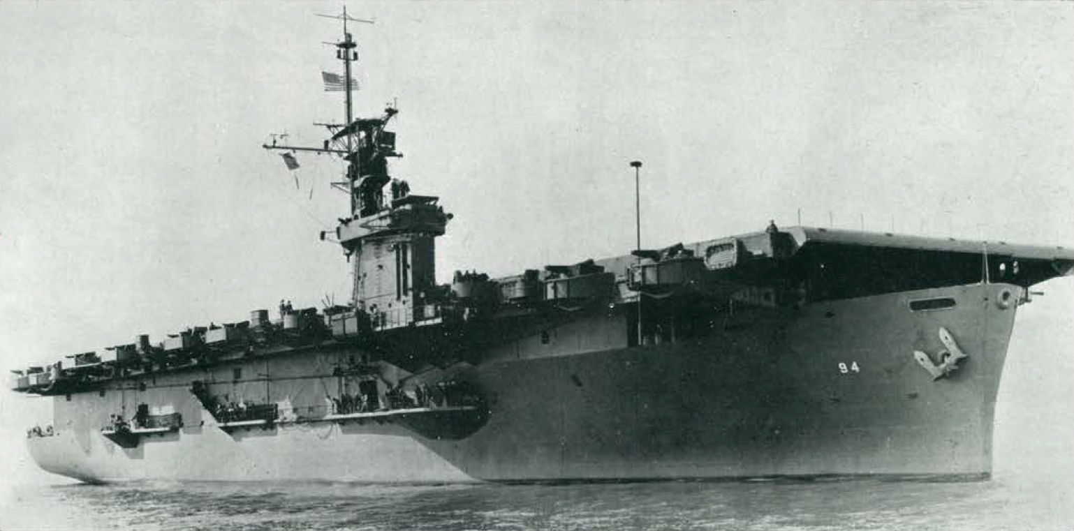 The U.S. Navy escort carrier USS Lunga Point (CVE-94), in May 1944.